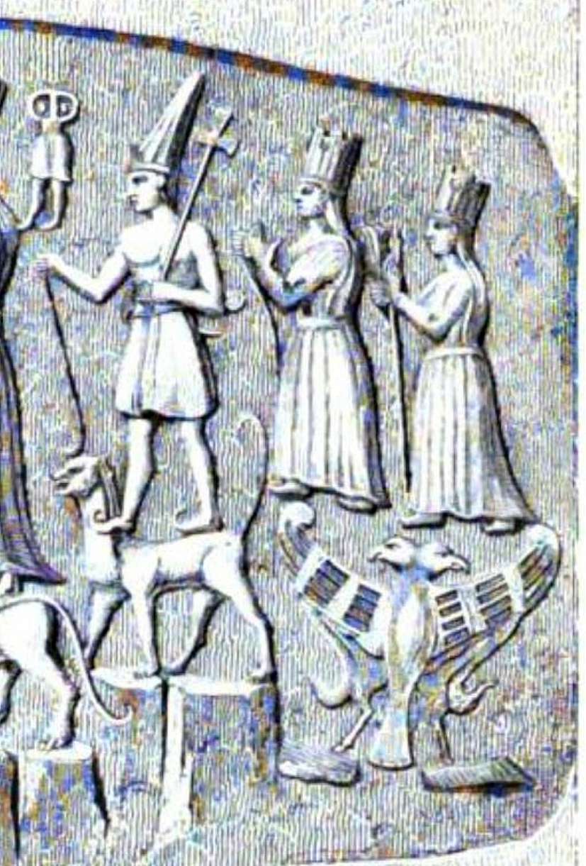 Engraving from a relief at Yazilikaya depicts the Hurrian-Hittite god Sharruma standing on a panther, holding an axe and wearing a conical hat. Behind him two goddesses stand on a double-headed eagle.[1]